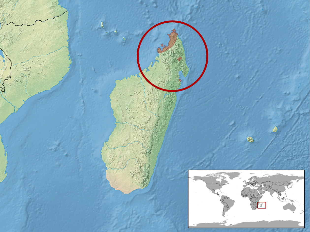 geographic distribution of Madascincus stumpffi